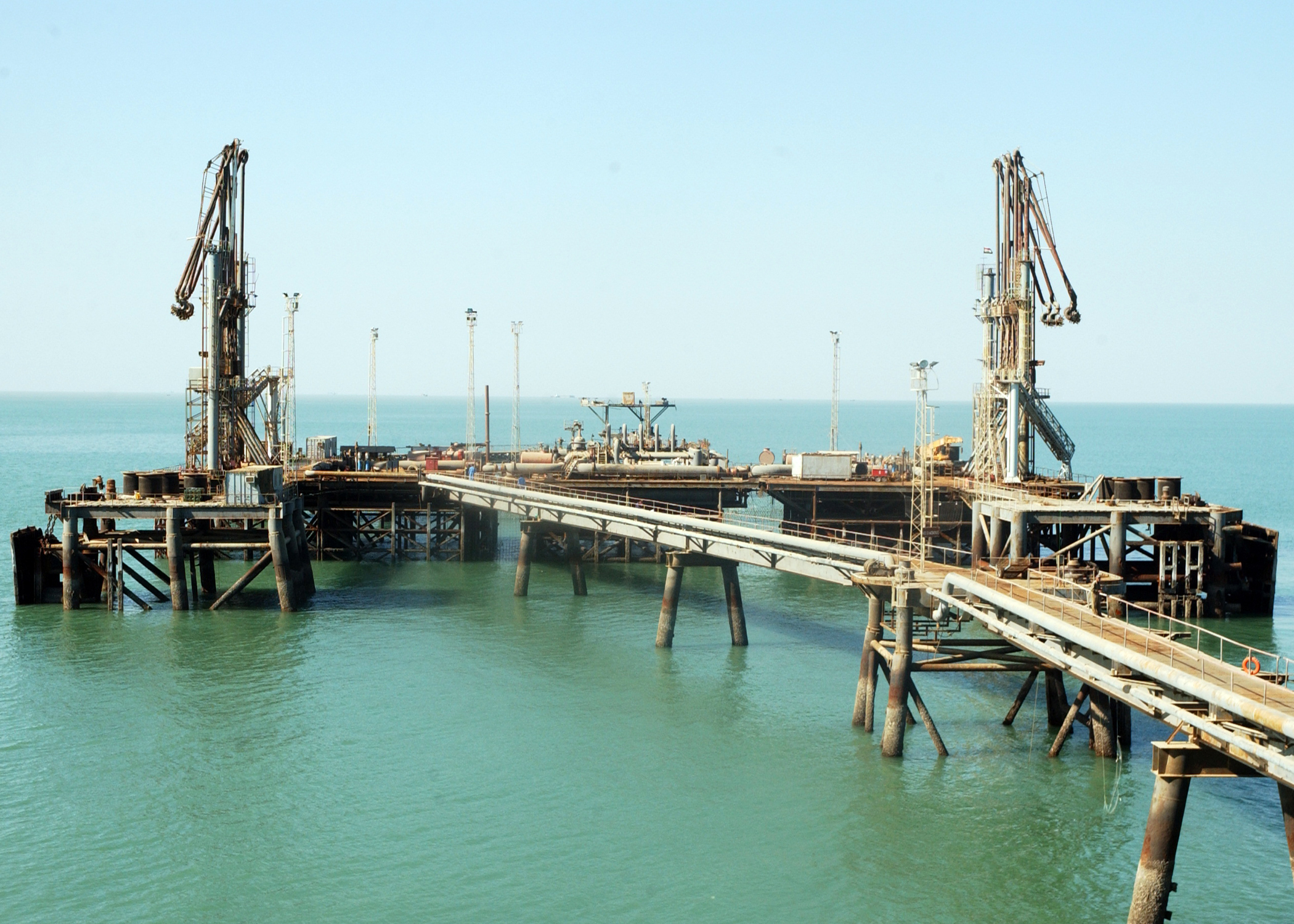 Persian Gulf (Nov. 11, 2005) – An overall view of the Khawr Al Amaya Oil Terminal (KAAOT). The terminal, located off the coast of Iraq, is one of two major platforms that export the majority of the country's oil. Coalition forces have been training Iraqi personnel in force protection and search and seizure operations in effort to turn over the oil terminals in the area to Iraq. U.S. Navy photo by Photographer's Mate 3rd Class Randall Damm (RELEASED)